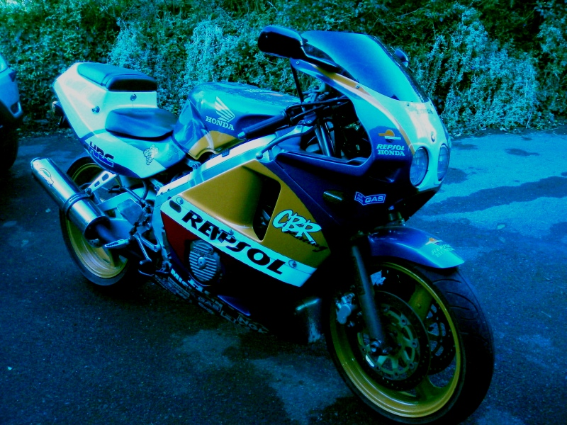 My own photograph of my own motorcycle